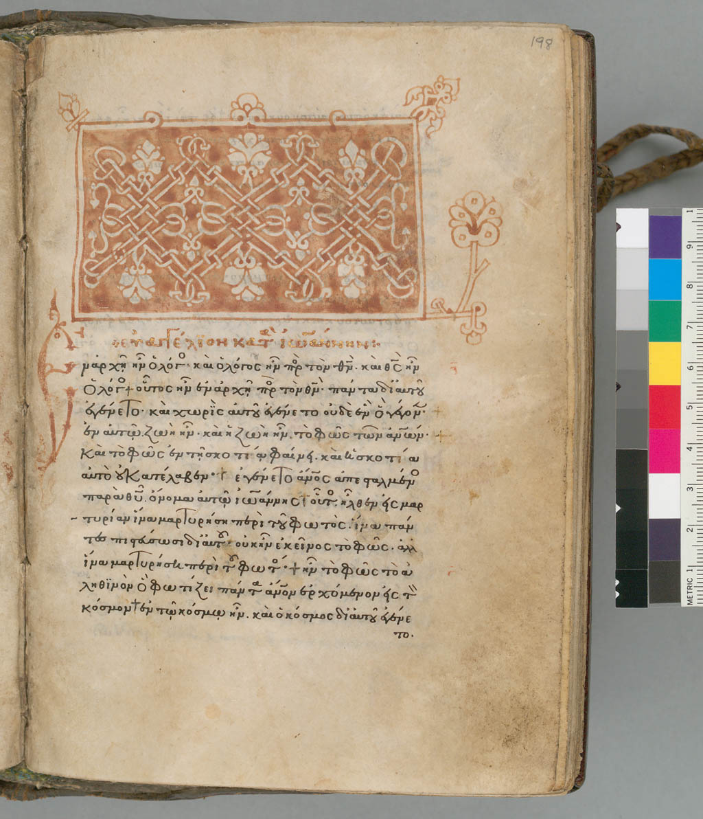 beginning of the Gospel of John